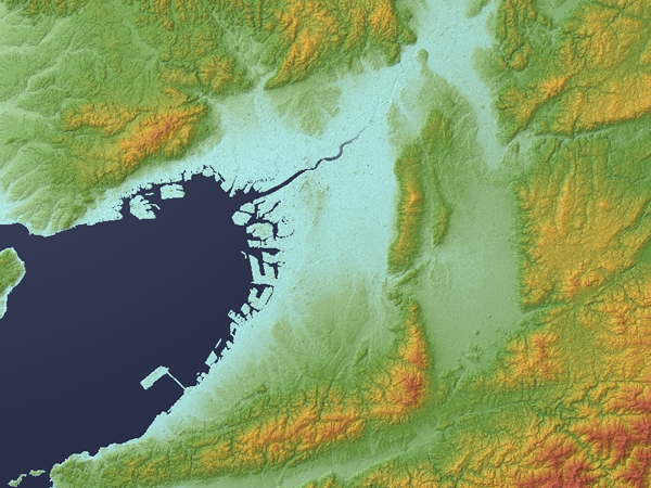 Osaka Plain in Osaka Prefecture, Honshu, Japan.